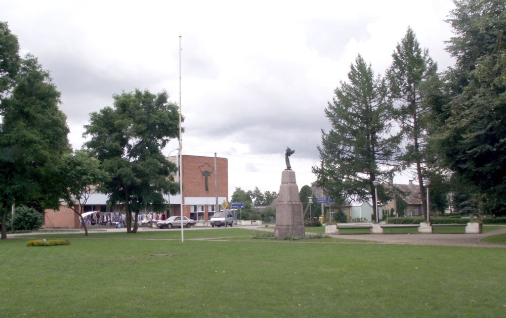 Meškuičiai, Šiauliai district, Lithuania